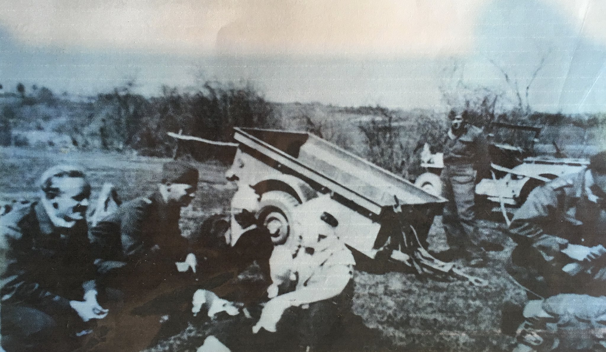 Partisans saving wounded English pilots in Slovenia during WWII